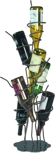 An example of a metal wine rack from The Wine Rack Store.